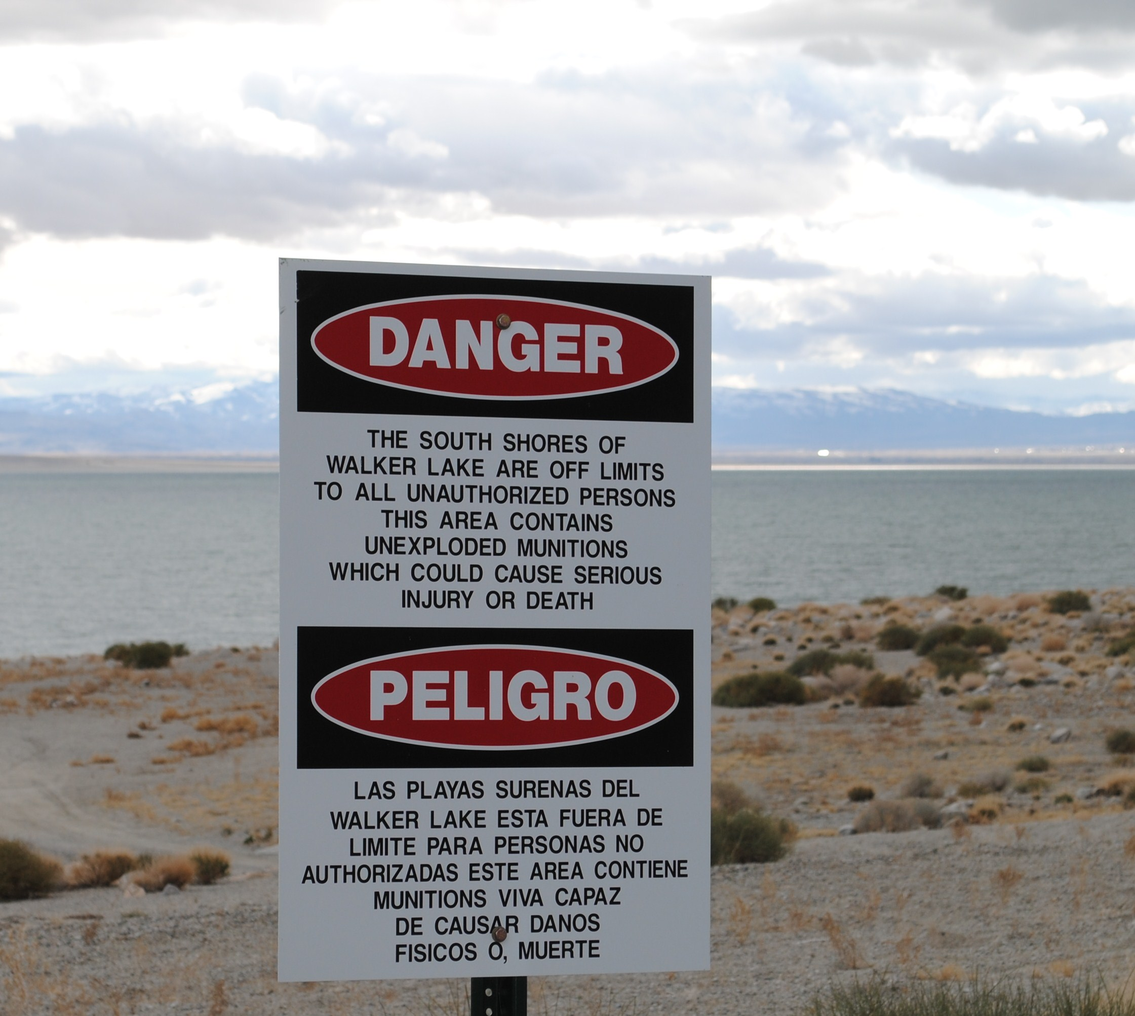 Warning of unexploded munitions in Walker Lake, Mineral County, Nevada